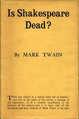 Cover of the first edition of Is Shakespeare Dead? by Mark Twain. Copyright, 1909, by Harper & Brothers.